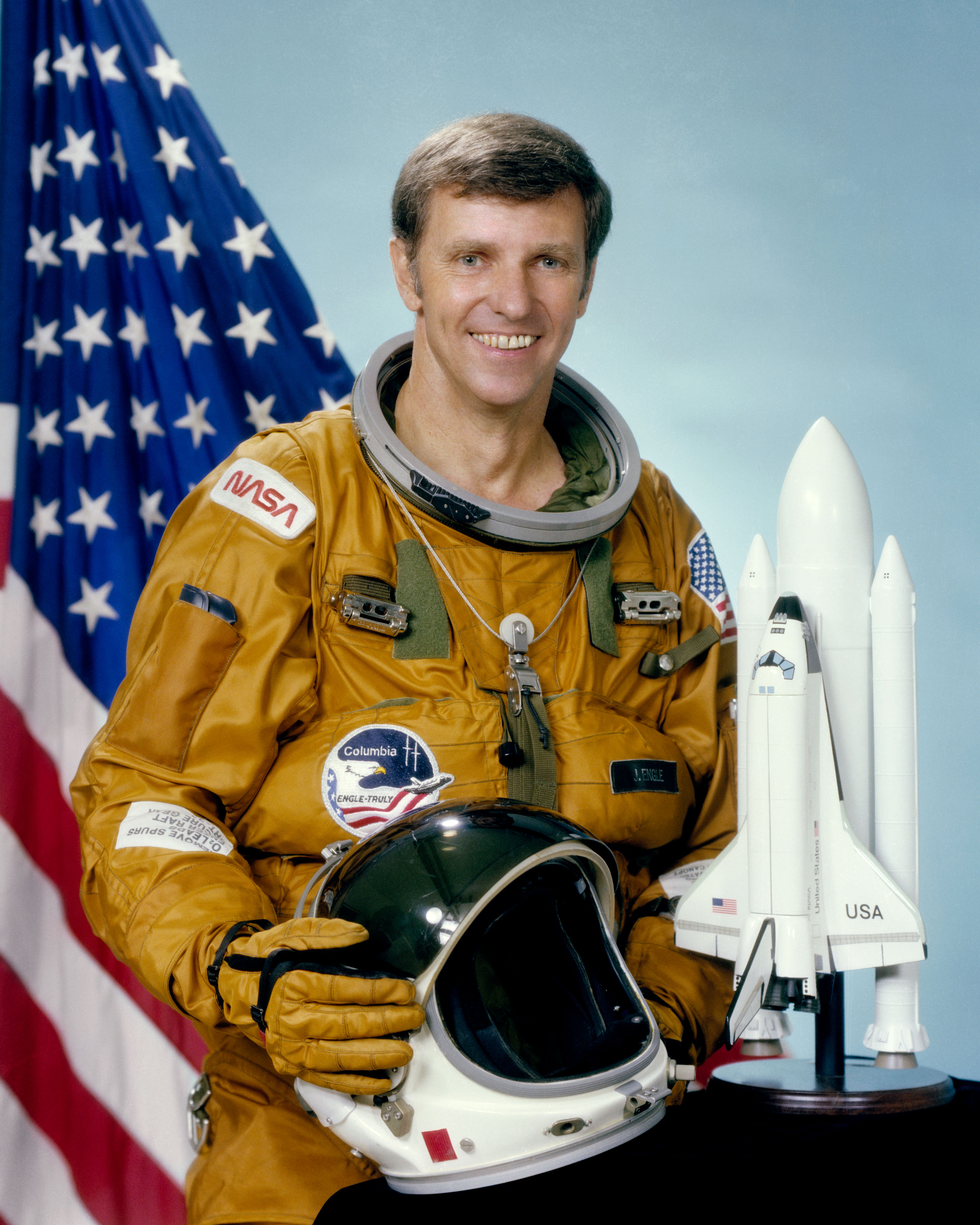 Portrait former NASA Astronaut Joe Engle.